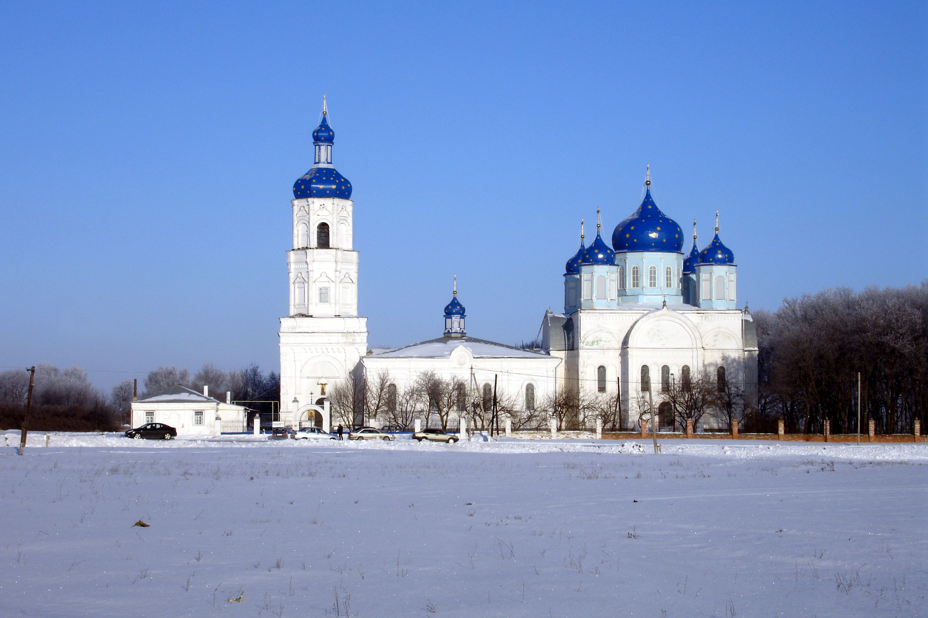 Church of the Theotokos of Bogolyubovo (Zimarovo)